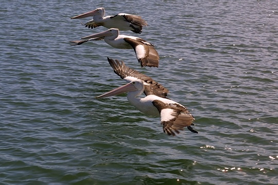 Pelicans